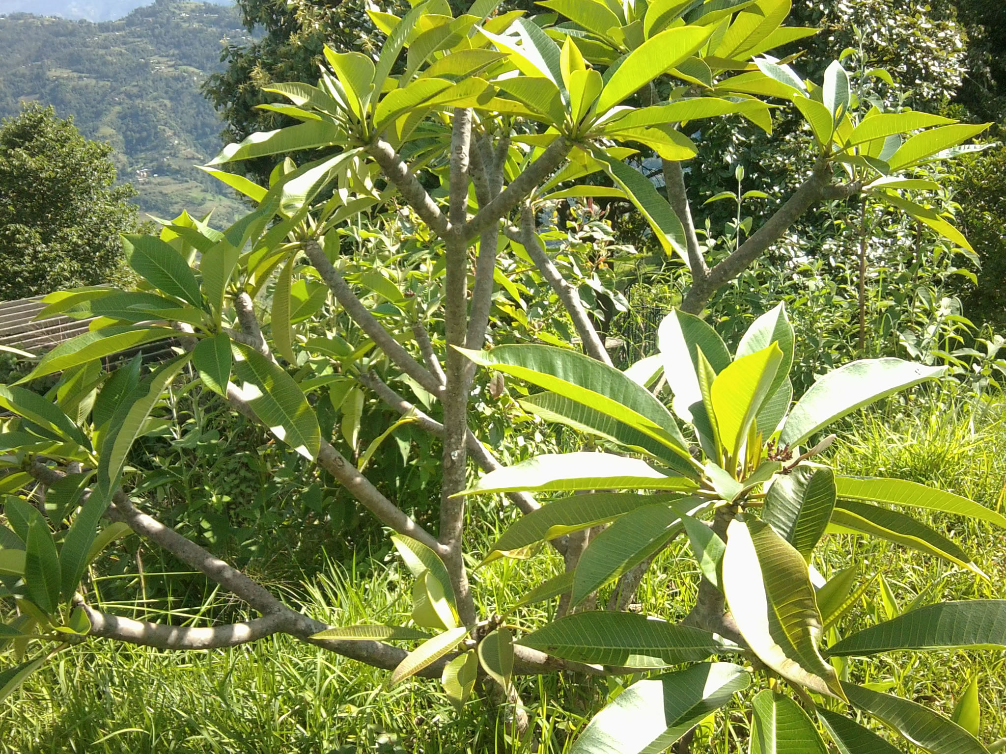 A plant of Plumeria obtusa in Nepal.